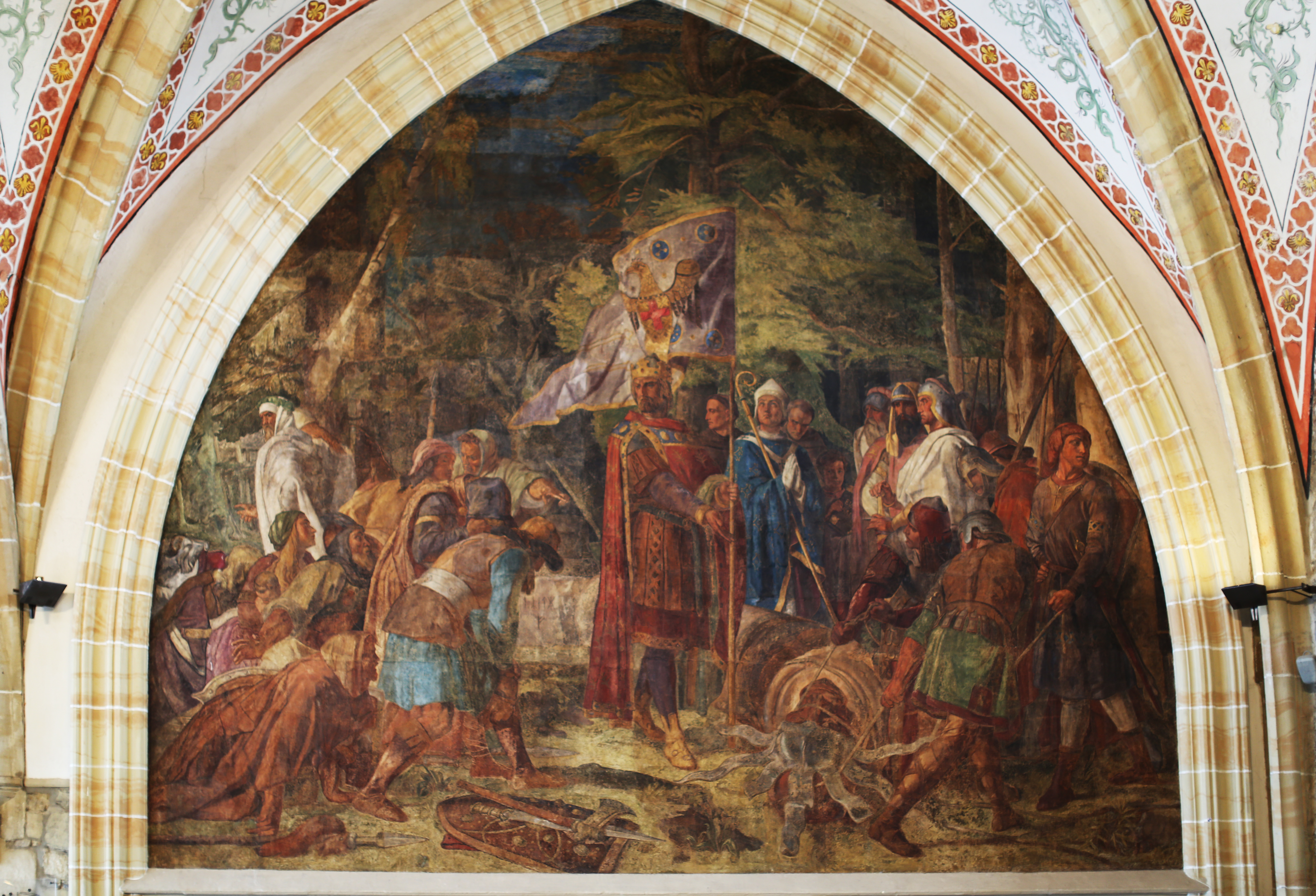 Fresko at the Gothic Aachen Rathaus, Interior of Coronation Hall. Titel: "Demolition of Irminsul, the old Saxon great pillar" (device of Charlemagne)